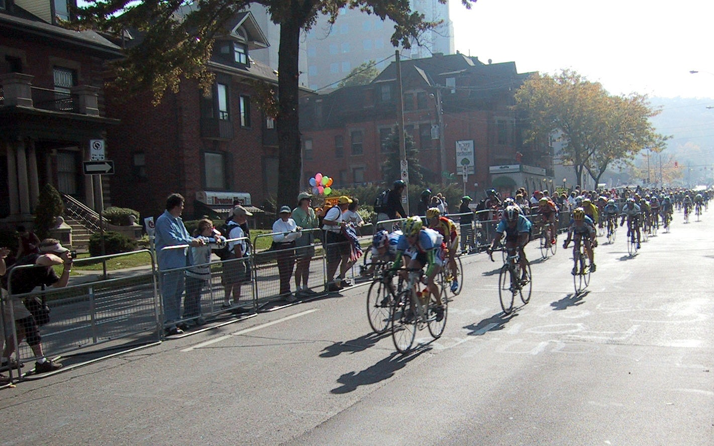 World Cycling Championships 2003 held in Hamilton, Ontario, Canada